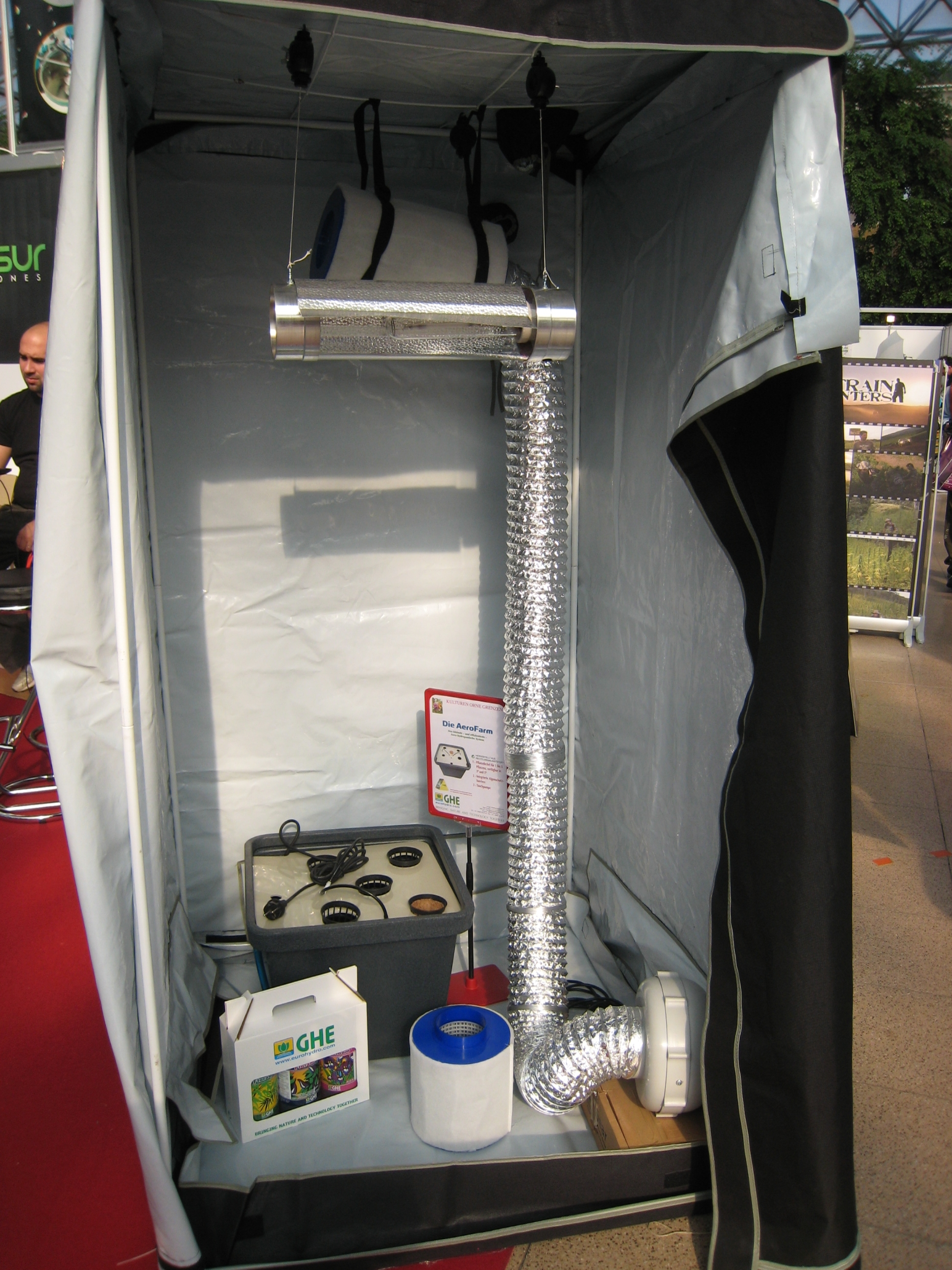 A nearly completely installed grow box